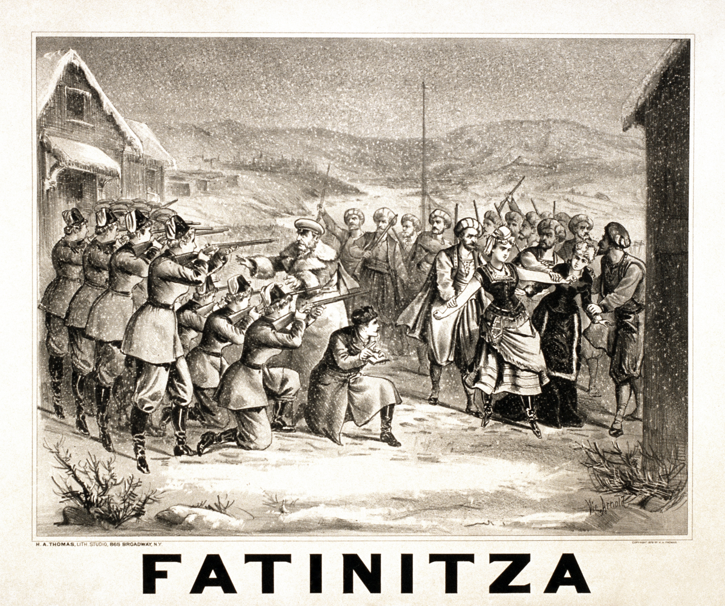 Poster for Franz von Suppé's Fatinitza by the H.A. Thomas Lith. Studio, New York.